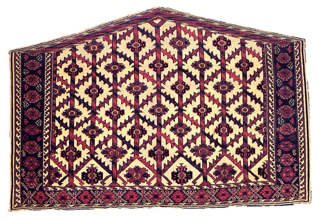 Yomut, Turkmenistan FIVE-SIDED BRIDAL TRAPPING (asmalyk) 1st half of the 19th century